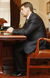 Nikolay Dudov, governor of Magadan oblast